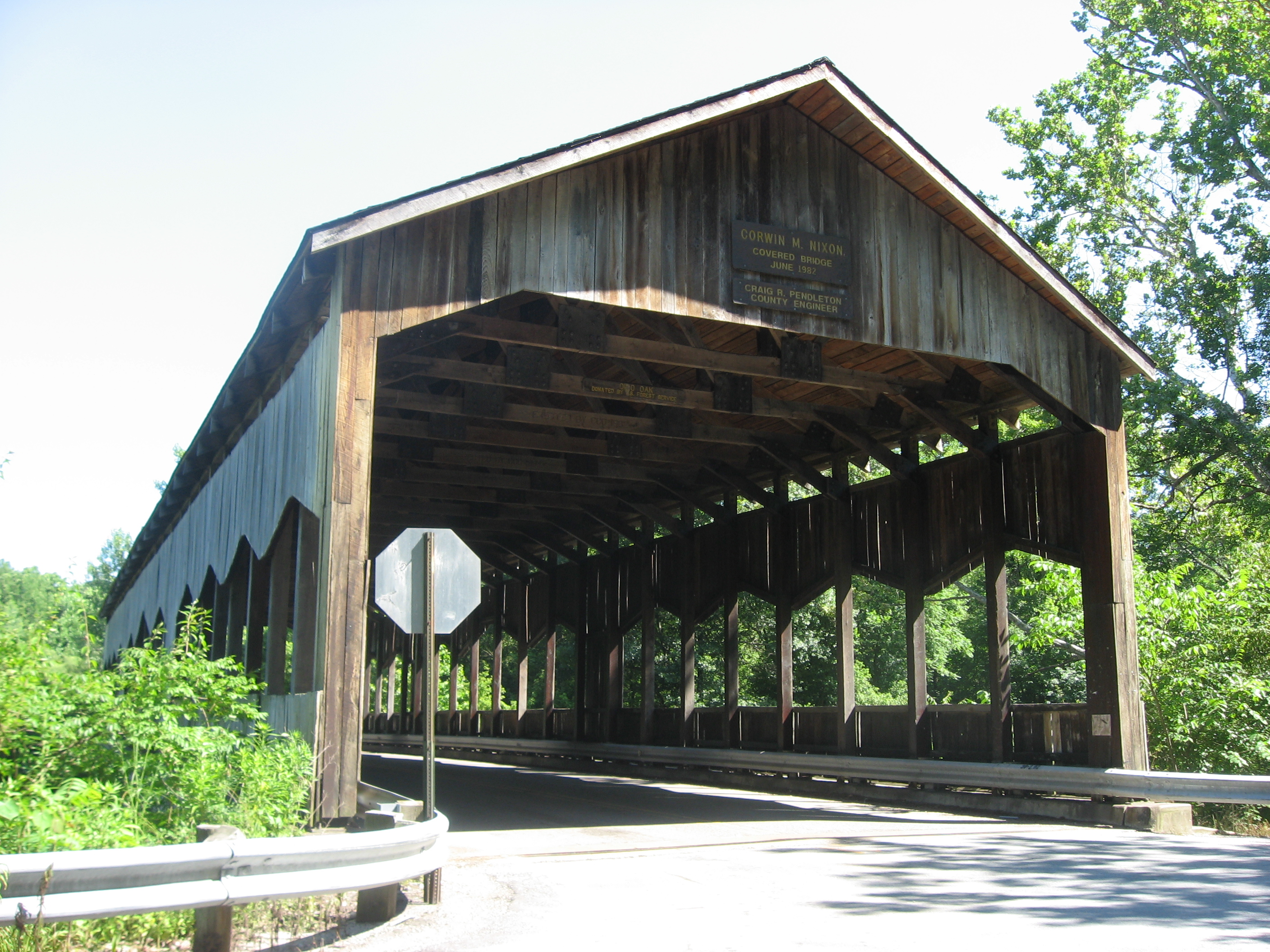 Western portal of the Corwin M. Nixon Covered Bridge, which carries Middletown Road over the Little Miami River north of Oregonia in Wayne Township, Warren County, Ohio, United States. Built in 1982, the bridge is named for longtime local politician Corwin M. Nixon.